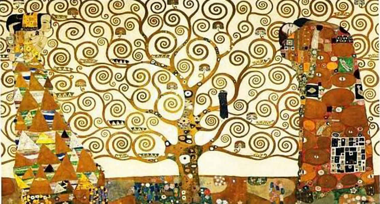 The Tree of Life